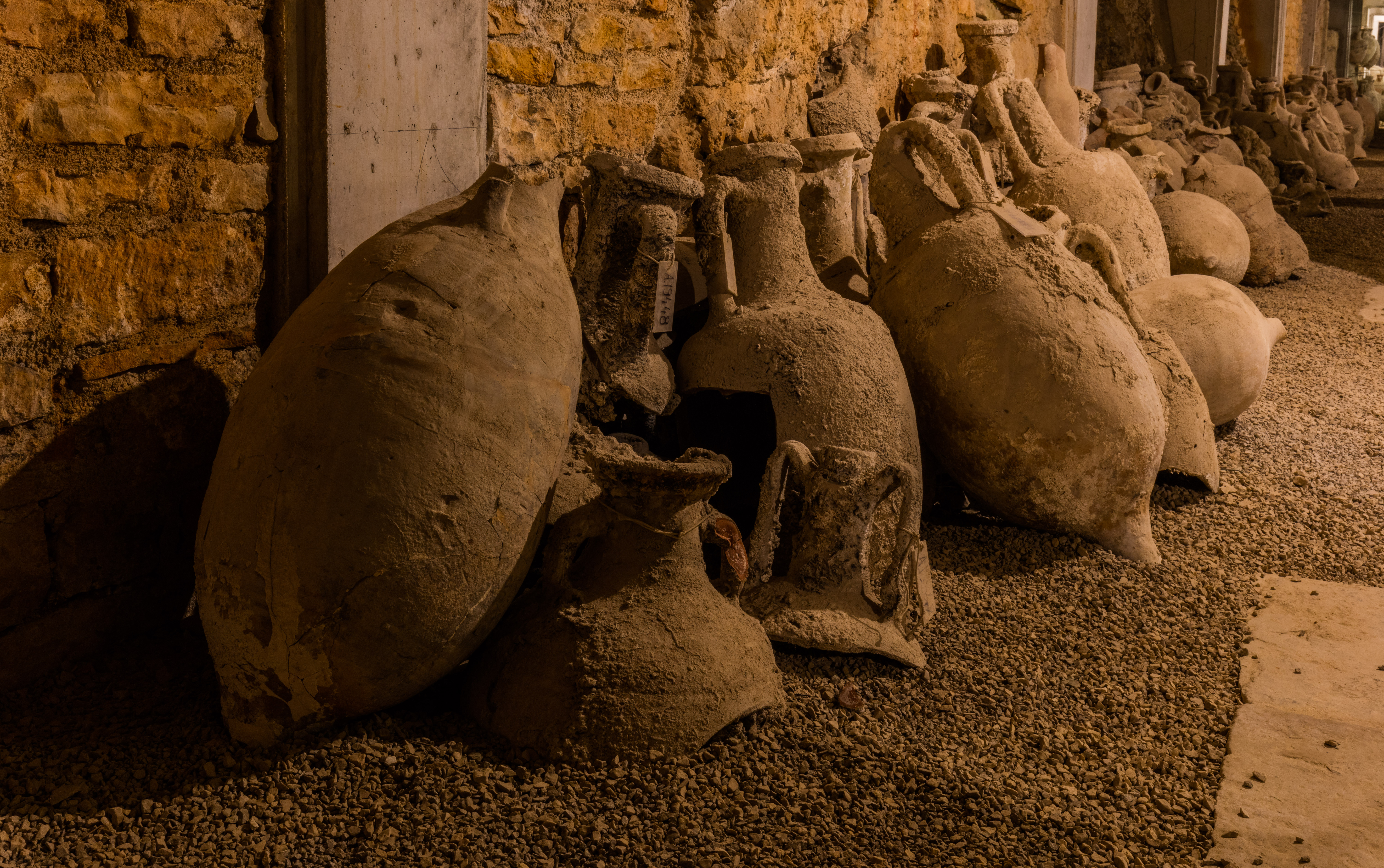 Pula amphitheatre, Croatia. This is a a photo of a cultural heritage in Croatia with ID: Z-863